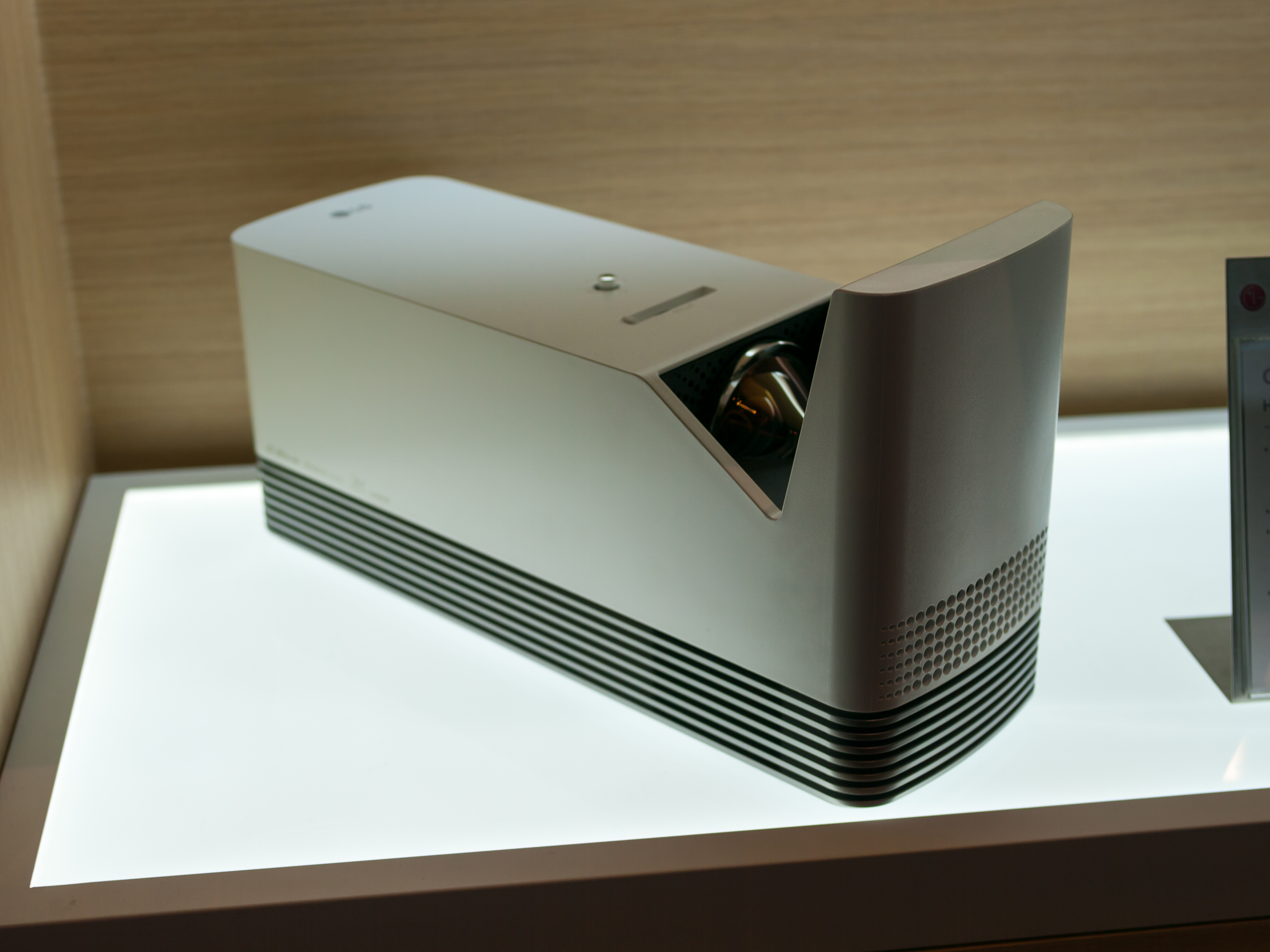 LG CineBeam Laser HF85LS, Internationale Funkausstellung 2018, Berlin